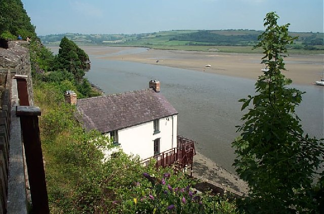 Dylan Thomas's Boat House, Laugharne. Dylan Thomas and his wife Caitlin lived in the Boat House with their three children, Llewellyn, Aeronwy and Colm between 1949 and 1952. The Boat House has now been preserved as a heritage centre.